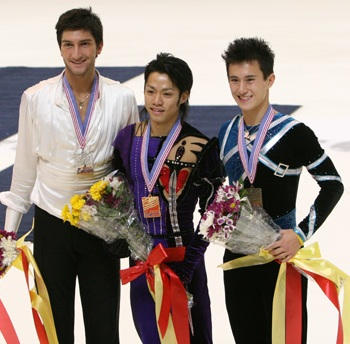 The men's podium at the 2007 Skate America. From left: Evan Lysacek (2nd), Daisuke Takahashi (1st), Patrick Chan (3rd)